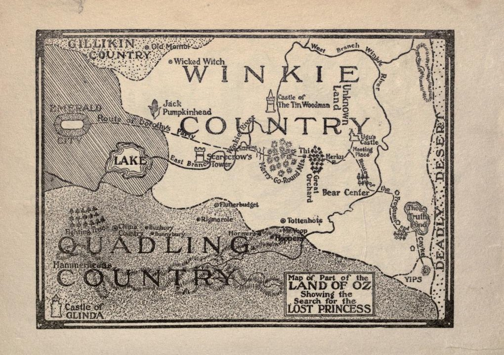 Map of the Winkie Country of Oz (East and West are reversed)